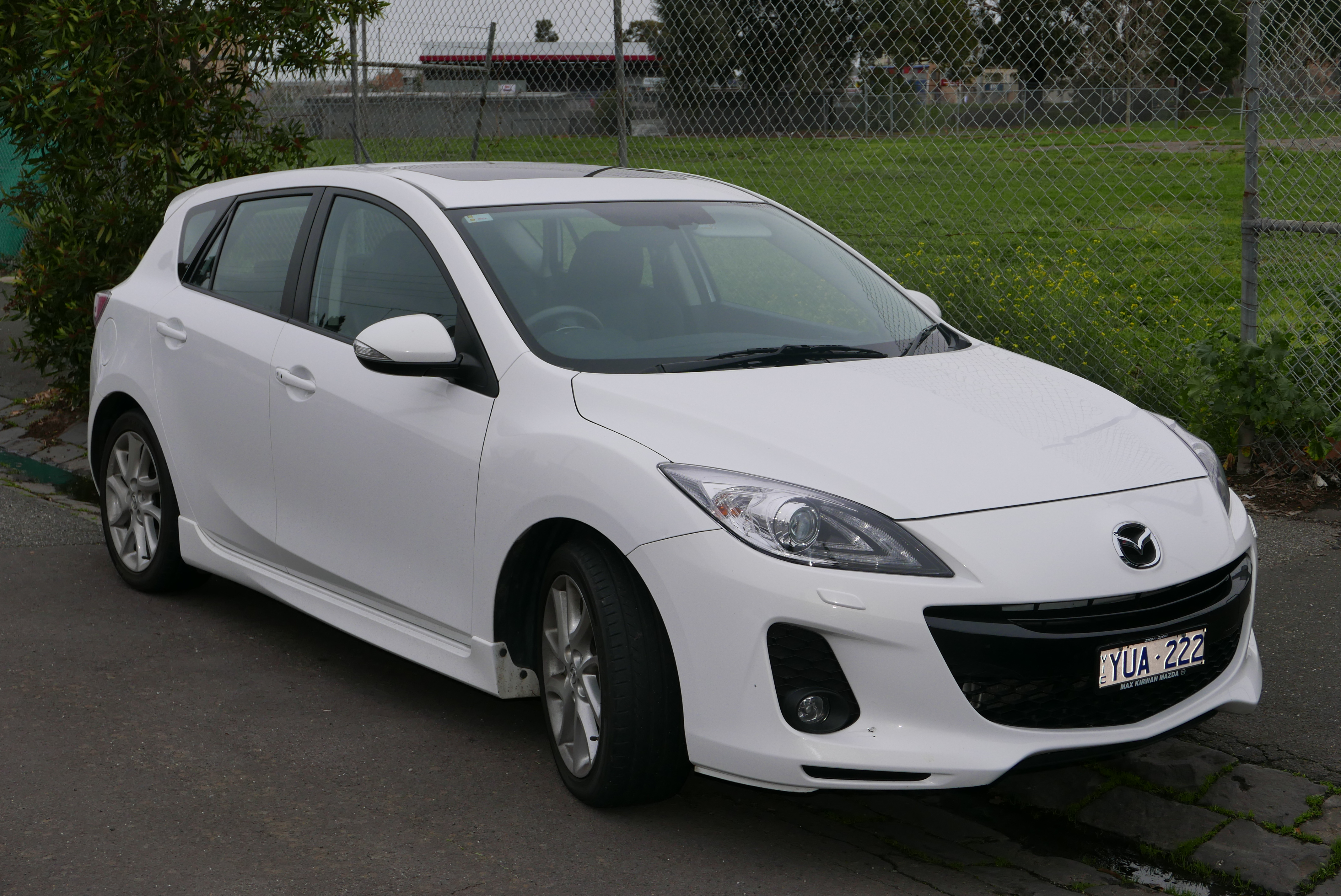 2012 Mazda3 (BL Series 2 MY12) SP25 hatchback. Photographed in Coburg, Victoria, Australia. Vehicle registration enquiry resultsJurisdictionVictoriaRegistrationYUA222Chassis codeJM0BL10L200320310Engine codeL510719446Compliance date2012-01Year of manufacture2012